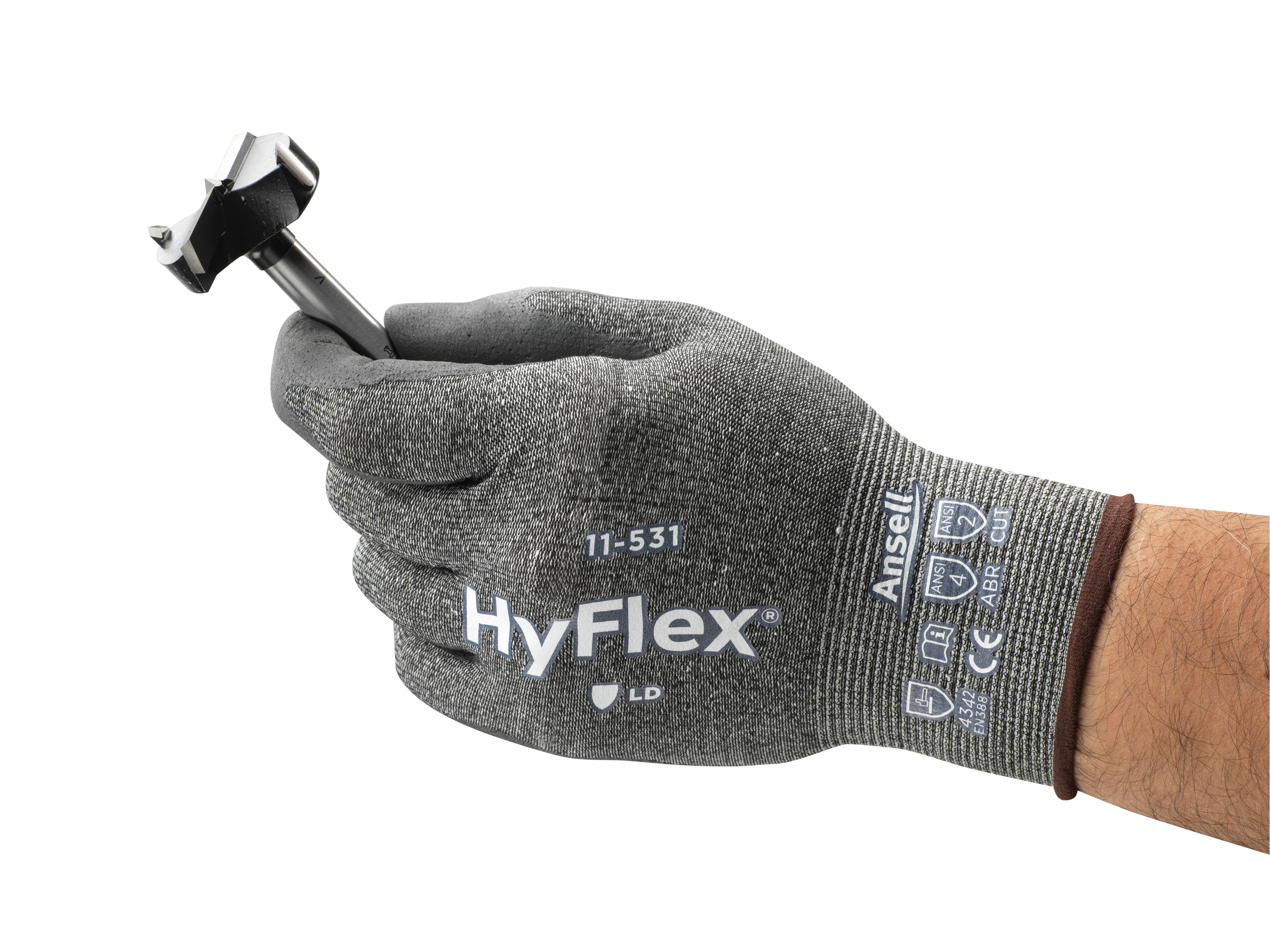 Hyflex® 11-531 cut resistant glove, developed by Ansell.